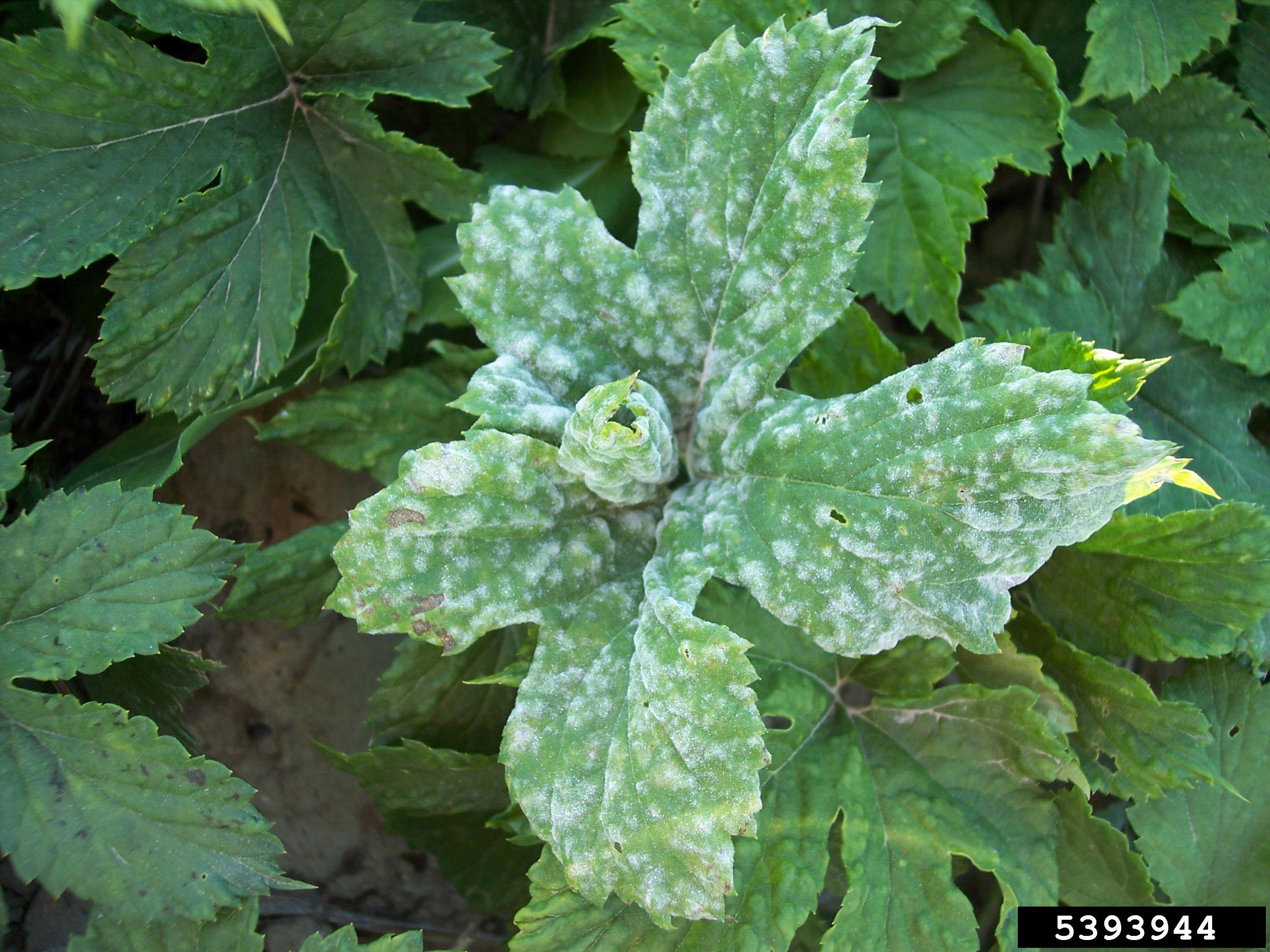 Signs